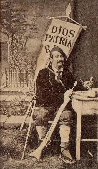 Mariano de la Coloma